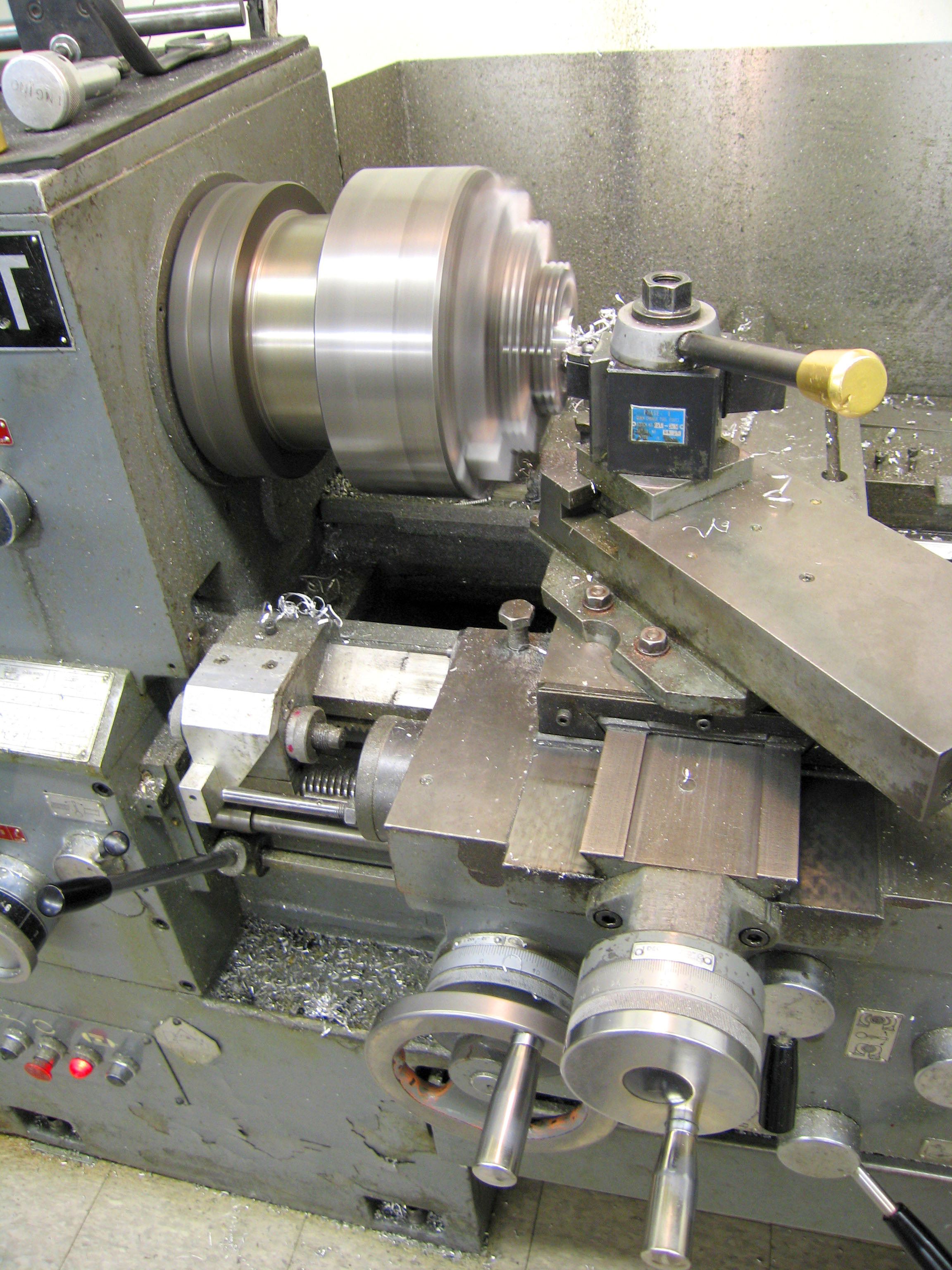 Making a bottle opener out of a chunk of aluminum